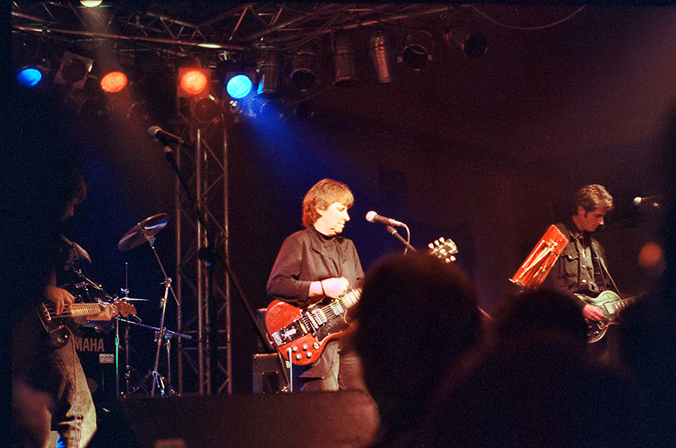 The Moe Tucker Band, Augsburg, Germany, September 1992